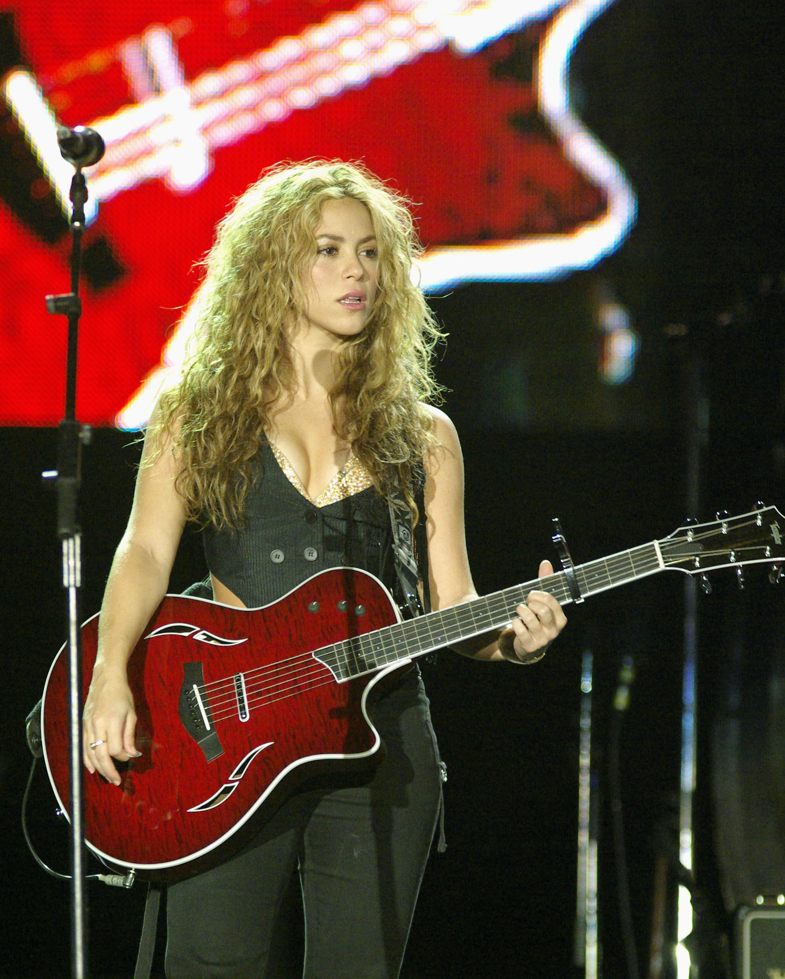 Shakira at the Rock in Rio concert in 2008.